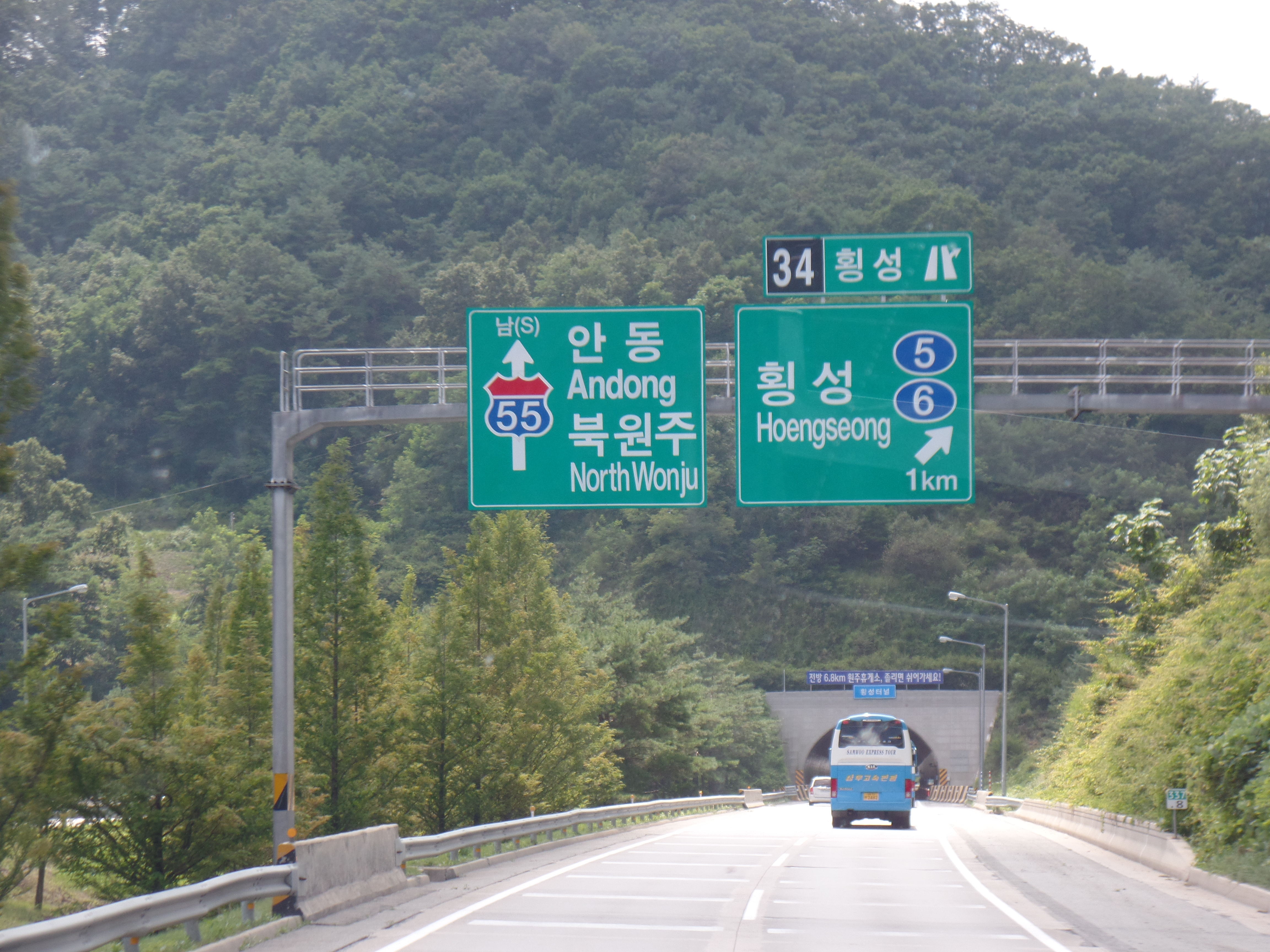 Hoengseong Interchange 2.1km Ahead Sign in Jungang Expressway Hoengseong Tunnel(Yangyang Direction)